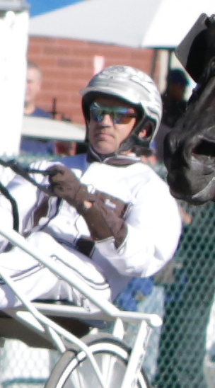 The $1,000,000 International Trot was brought back after a 20 year hiatus in Yonkers, New York.. Papagayo E of Norway was the winner.